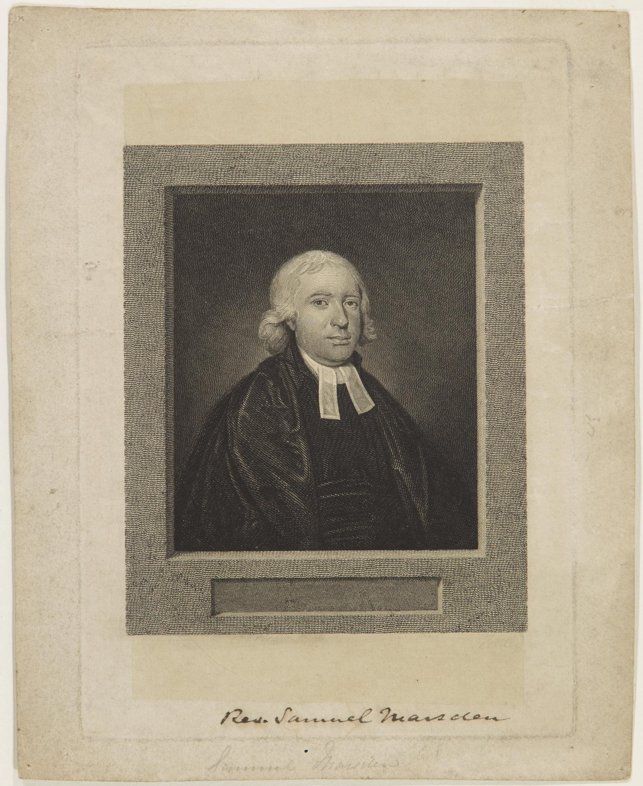 Samuel Marsden (1765-1838), The Hocken Collections – Te Uare Taoka o Hakena, accession number 23,602, Engraving by Fittler, James, 1758-1835, 231 x 164mm. The Magdalene College Chapel Michaelmas Term 2014 brochure [1], says "The picture on the cover is a copy of an engraving of Marsden (c.1809) by James Fittler ARA from the College Archives".